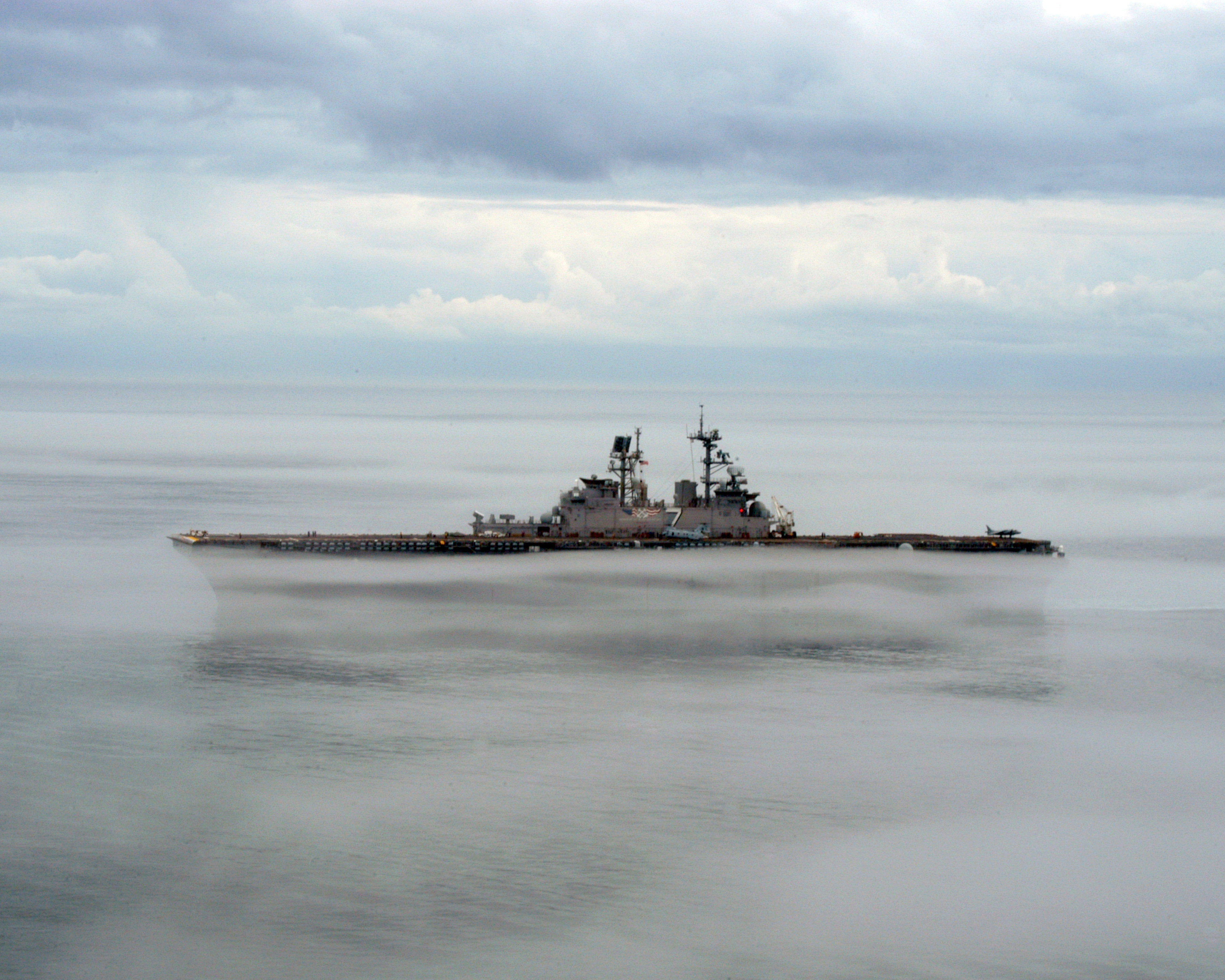 The U.S. Navy amphibious assault ship USS Iwo Jima (LHD-7) shown operating in dense fog in the Atlantic Ocean. Iwo Jima was underway conducting exercises in preparation for an upcoming deployment.